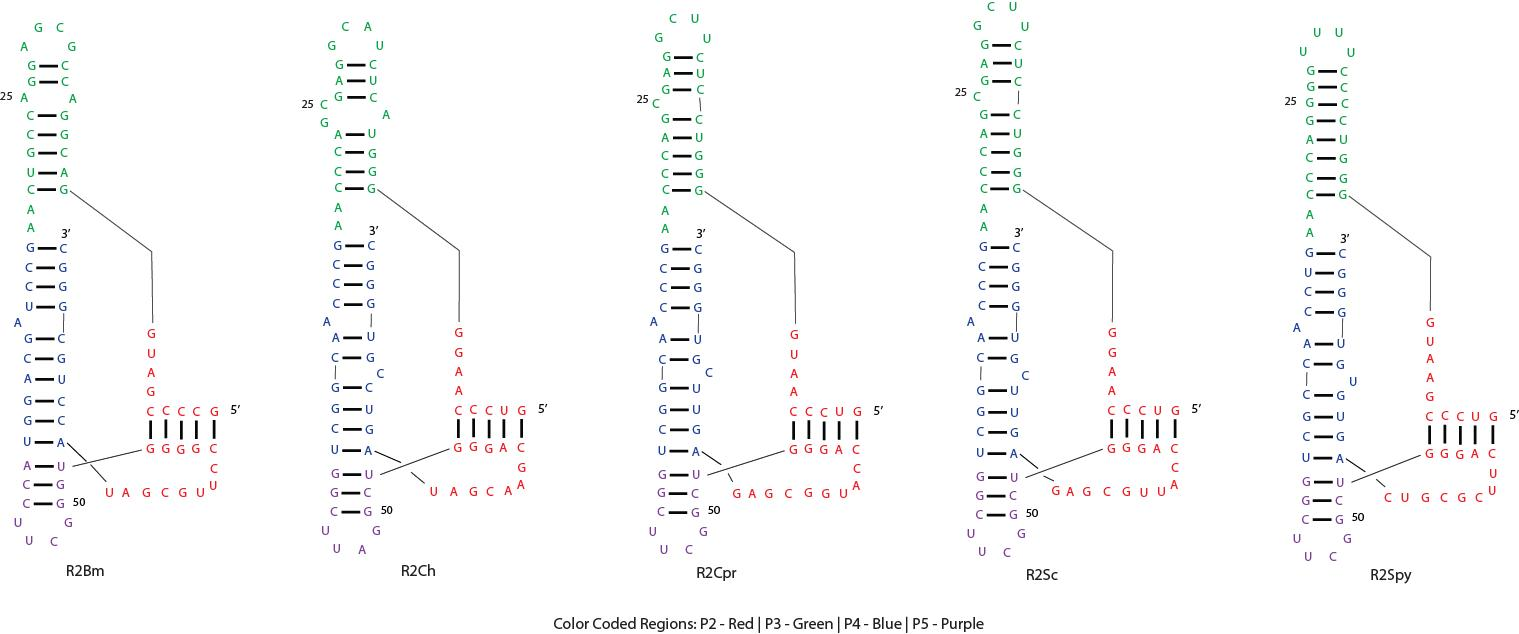 5' Psuedoknot of 5 silk moth species